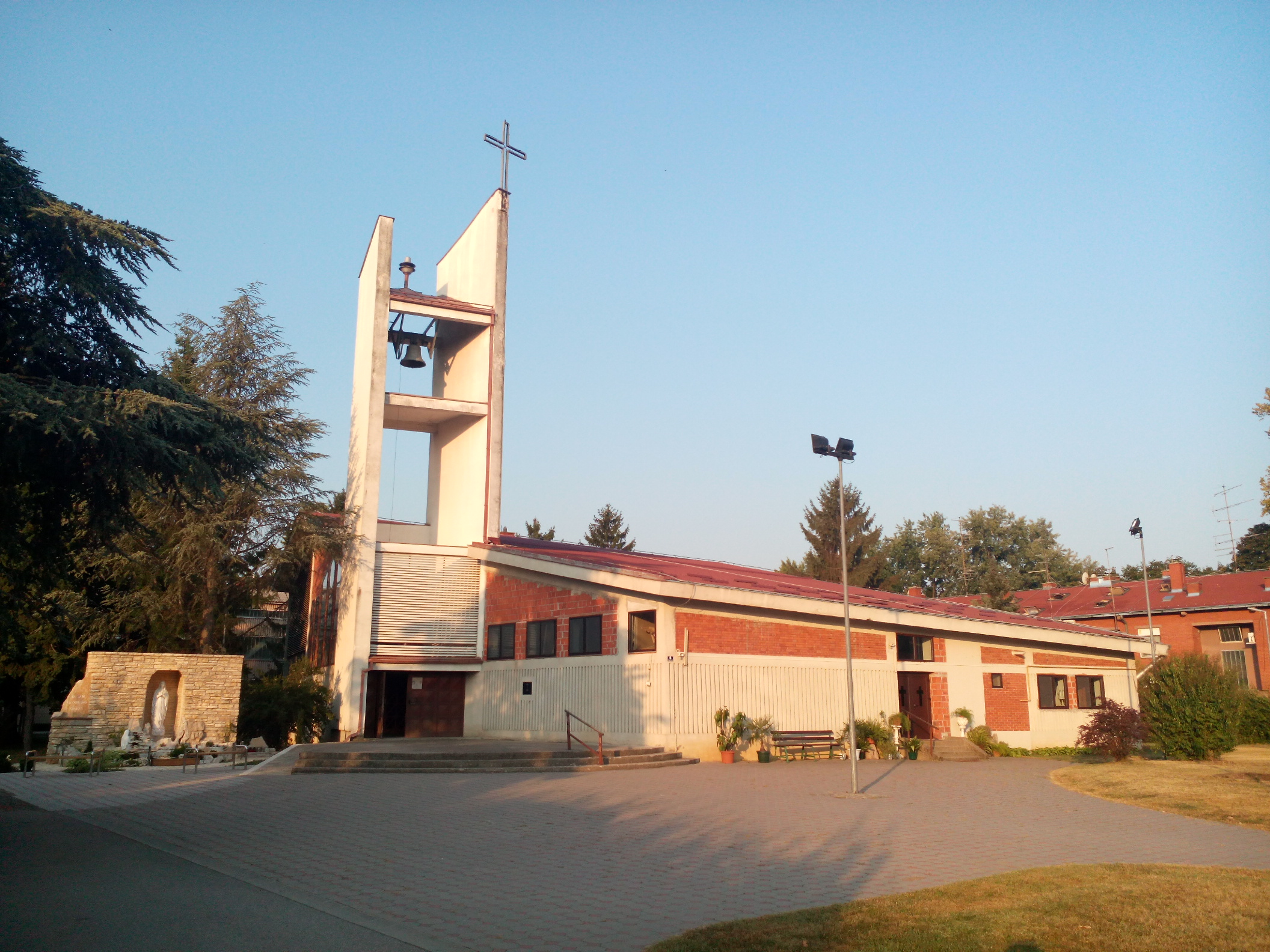 St. Joseph the Worker's Parish Church, Belišće.